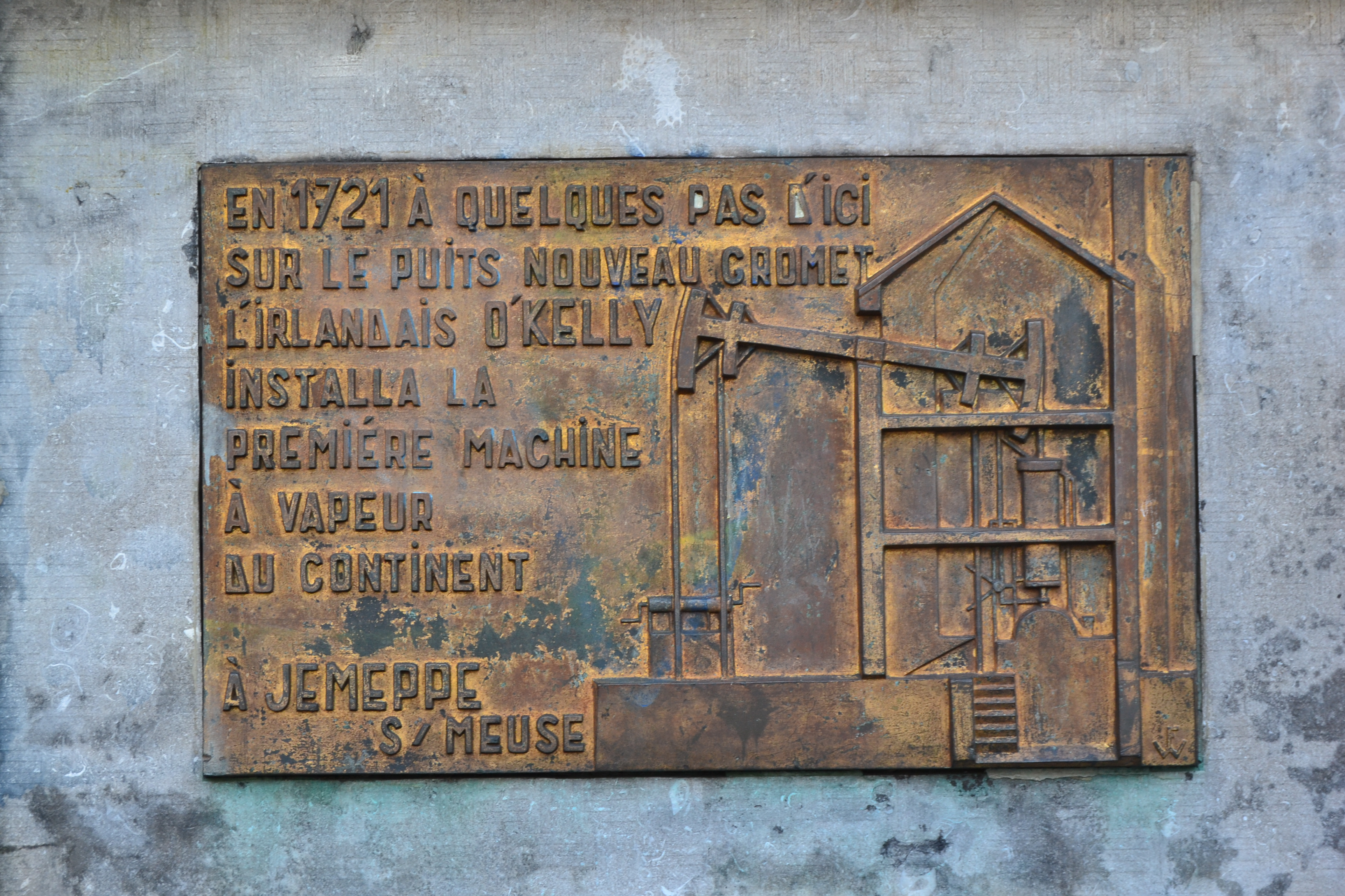 Monument in honour of John O'Kelly, who built at this place in Jemeppe-sur-Meuse, Belgium, the first Thomas Newcomen steam machine on the Continent to pump water in coal mines